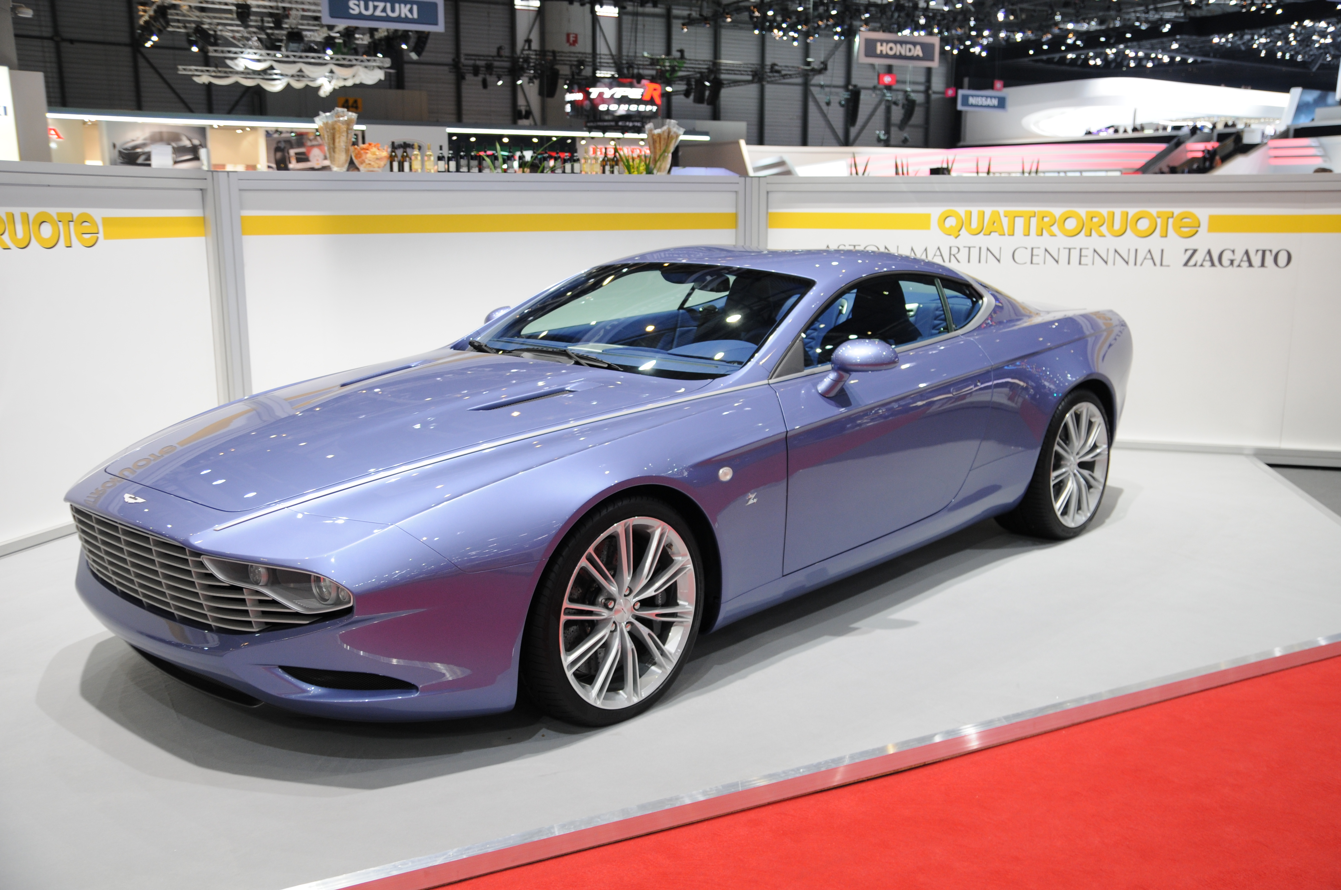 Geneva Motor Show 2014 (photo taken on the first press day)